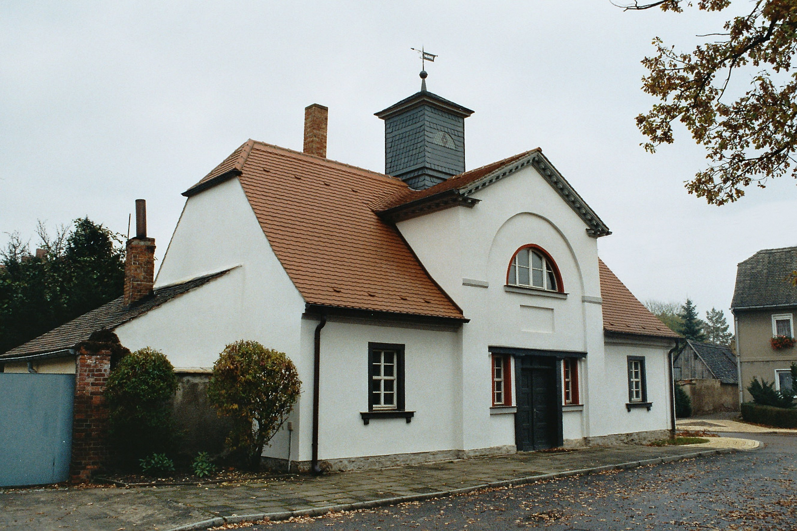 Zöschen (Leuna)- the ancient town hall